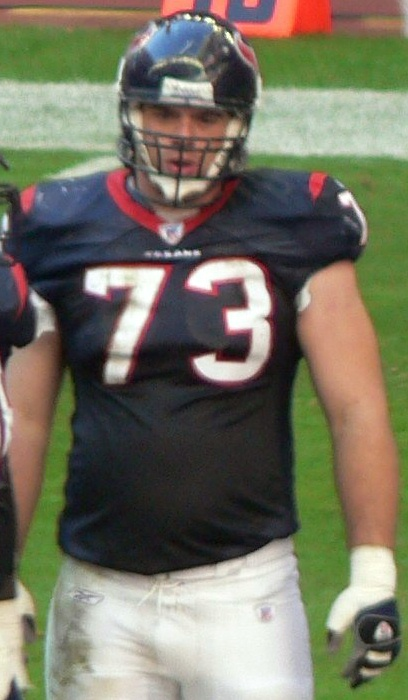 Houston Texans offensive tackle Eric Winston on November 19, 2006.